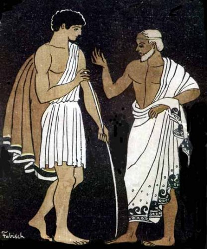 Pablo E. Fabisch, illustration for Aventuras de Telémaco by François Fénelon (1651-1715), translated and adapted by Clemente Cimorra, Ediciones Peuser, Buenos Aires, 1956. Fénelon, archbishop of Cambrai, wrote the didactic Les aventures de Télémaque in 1699. Based on Homer's Odyssey, it tells of the adventures of Telemachus in search of his father. An extremely popular book in France, this picture is an illustration from one of its many editions.